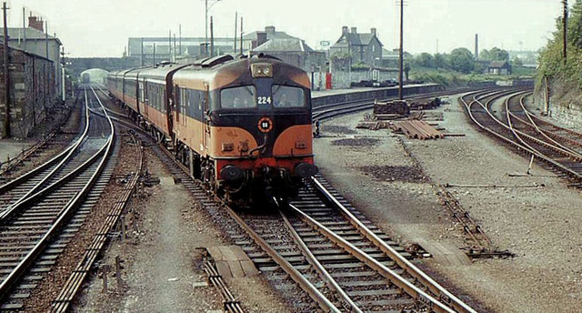 The Irish North yard, Dundalk. The 07.26 from Bray approaching Dundalk Central signal cabin 334668. The stub of the Irish North line to Enniskillen is on the right.